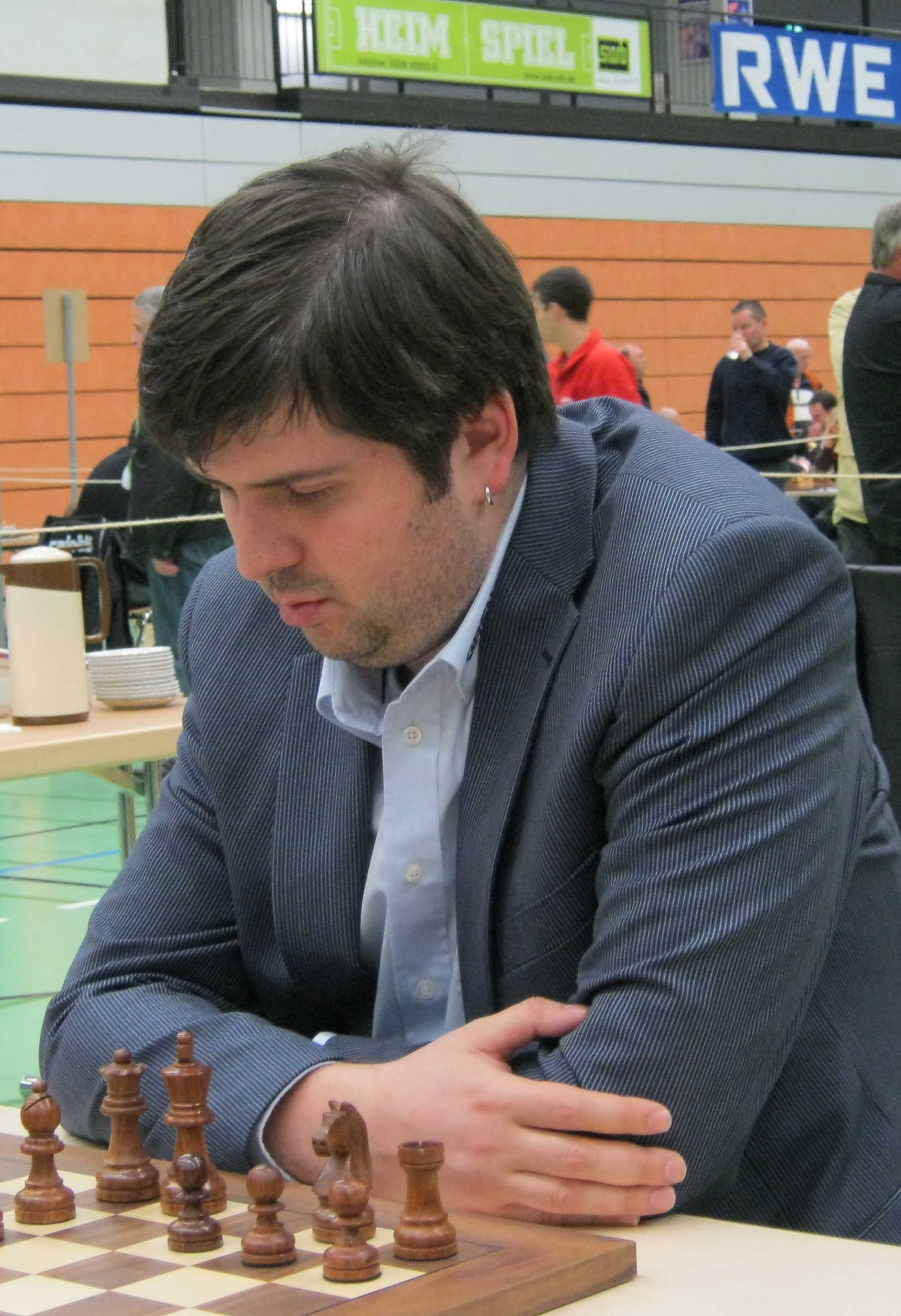 Peter Svidler, chess grandmaster from Russia